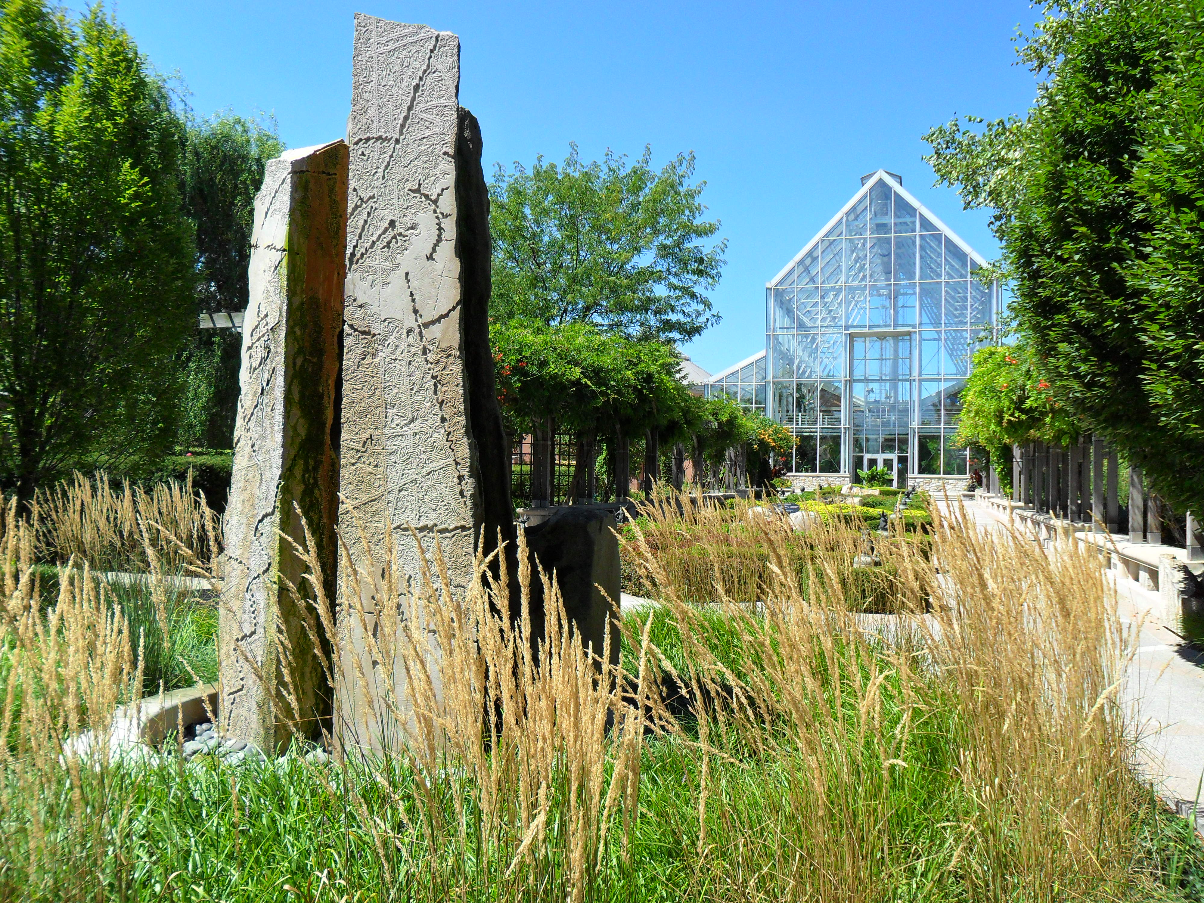 Relatively new White River Gardens with greenhouse in background and heart of garden in foreground.